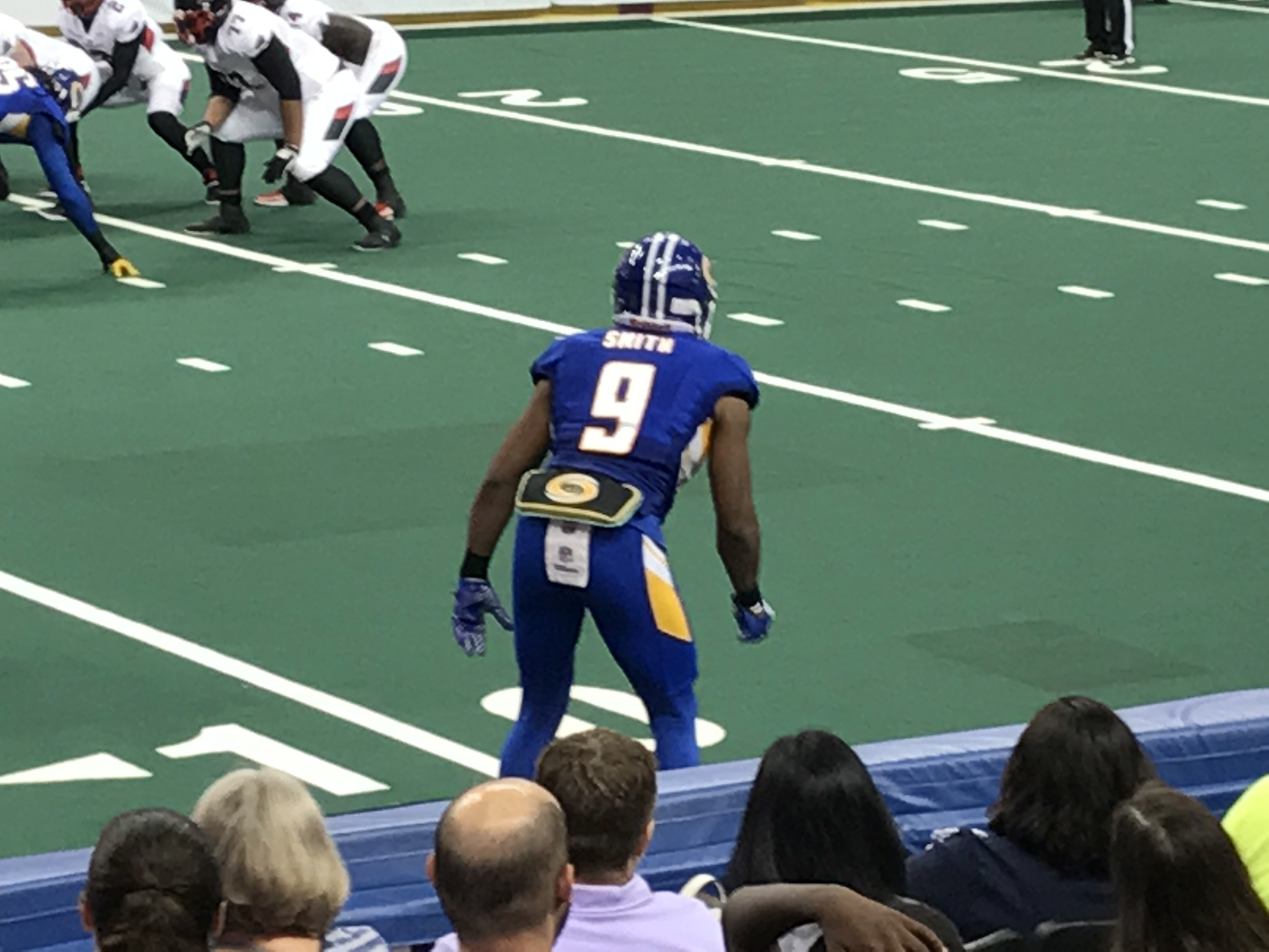 Damond Smith on defense